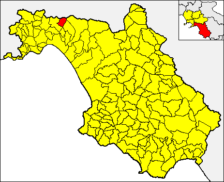 Locator map of the municipality of Calvanico (red) within the Province of Salerno